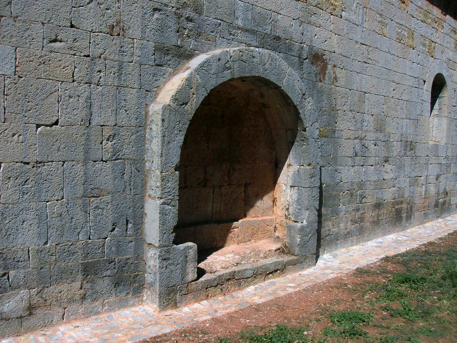 Depositoire on the outer wall of the abbey of Le Thoronet, France.